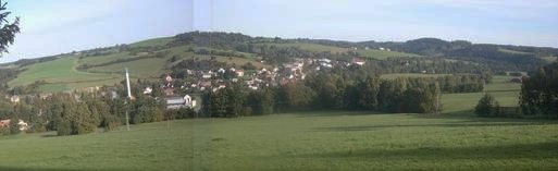 The panorama montage of the Bojanov village, Pardubice district, CZ